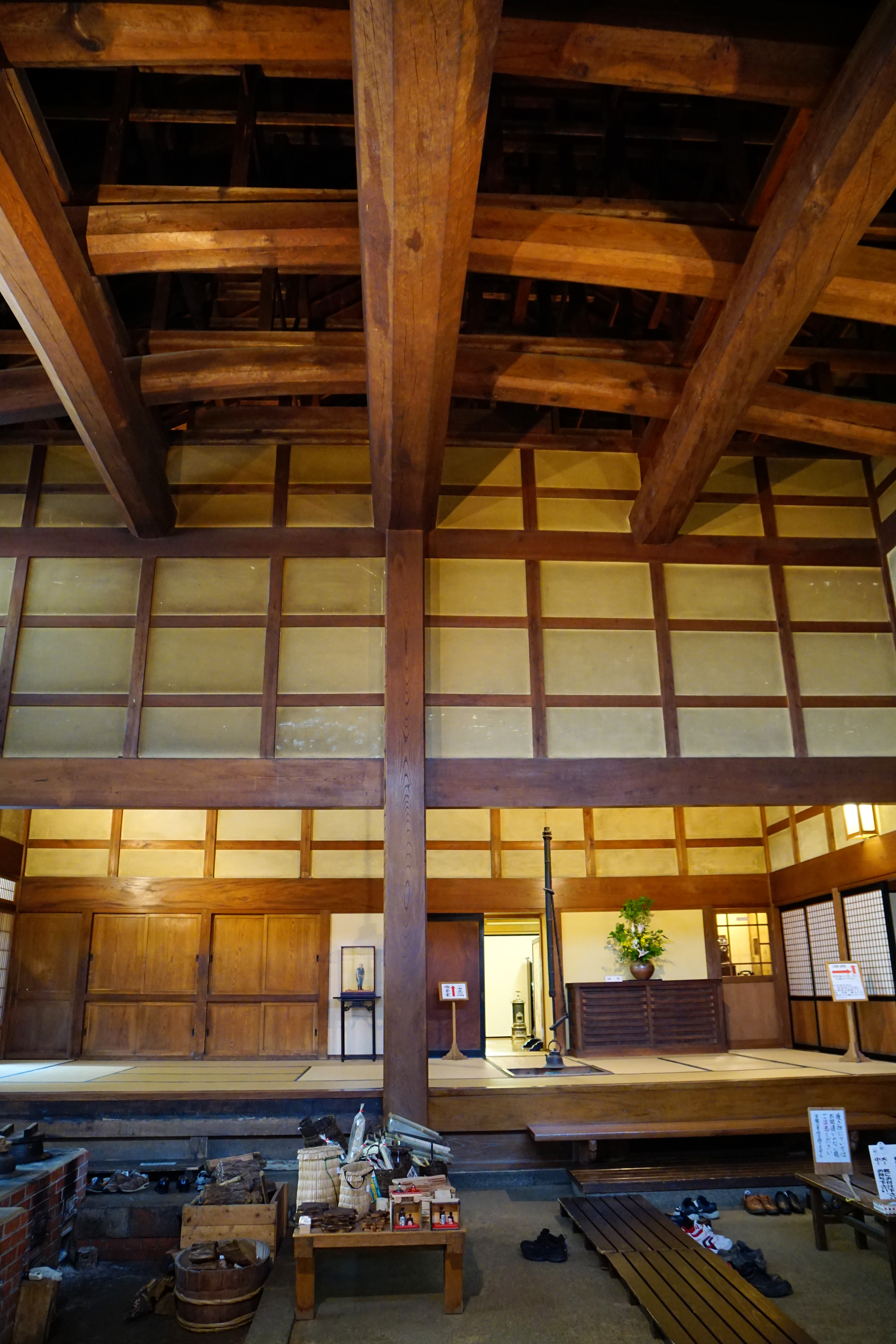 Ishitani Residence in Chizu, Tottori prefecture, Japan